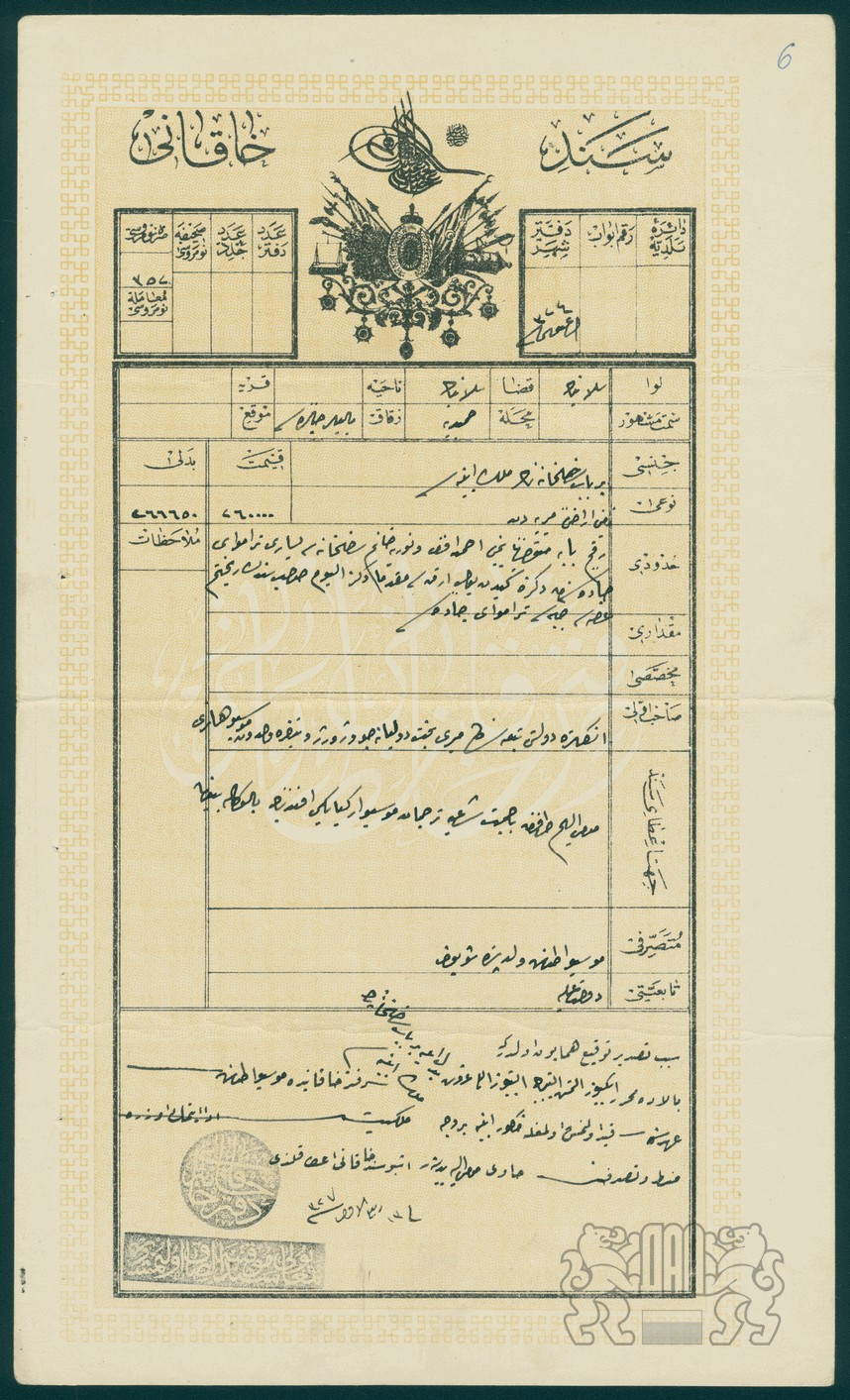 Tapi for the Osman Ali Bey Villa - 4 May 1909